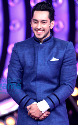 Rishabh Sinha Bigg Boss Finale